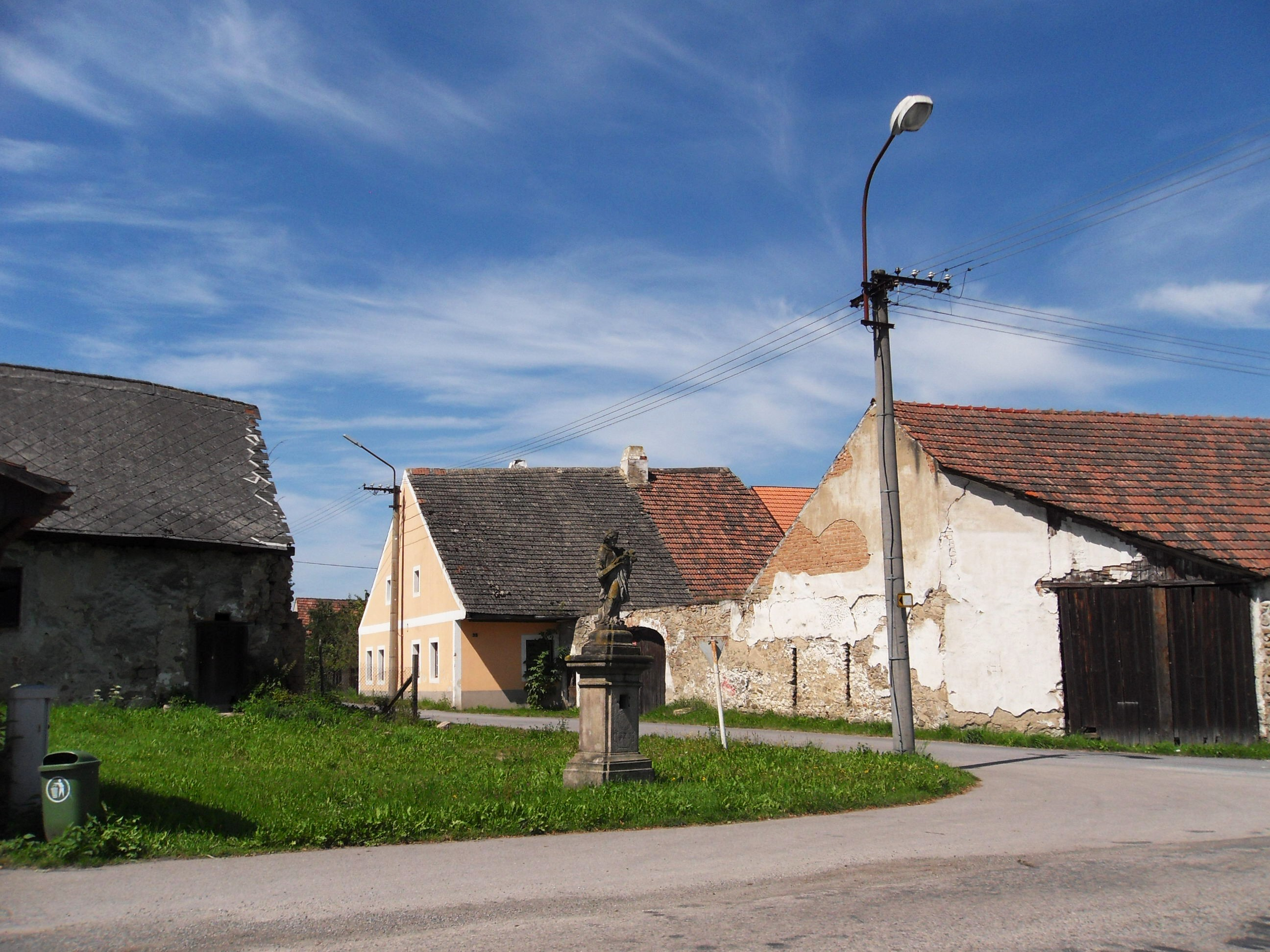 Former Čížkrajice fortress and statue of John of Nepomuk, Čížkrajice, České Budějovice district, Czech Republic